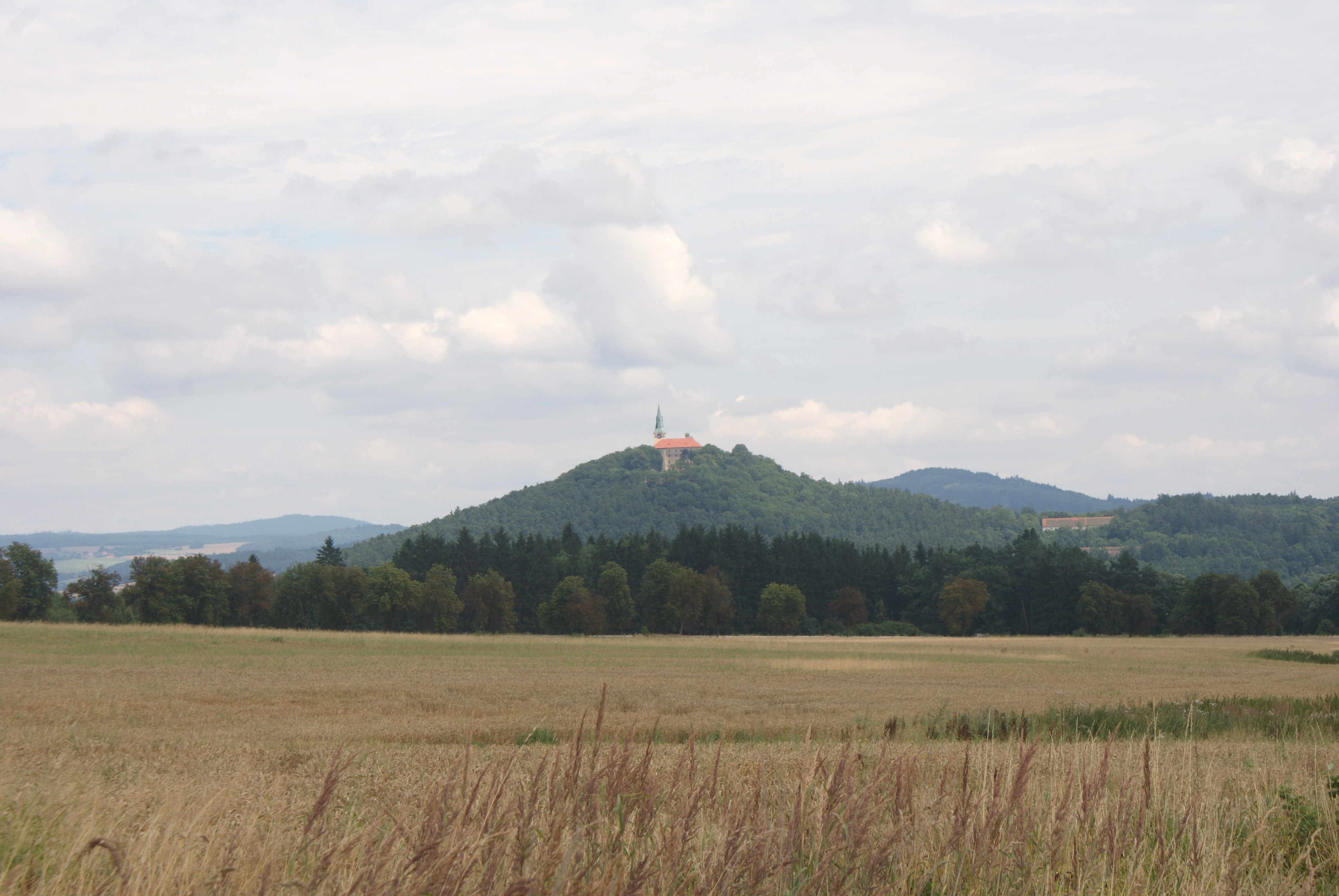 Nepomuk, a town in Plzeň-South District, Czech Rep., the Zelená Hora castle.